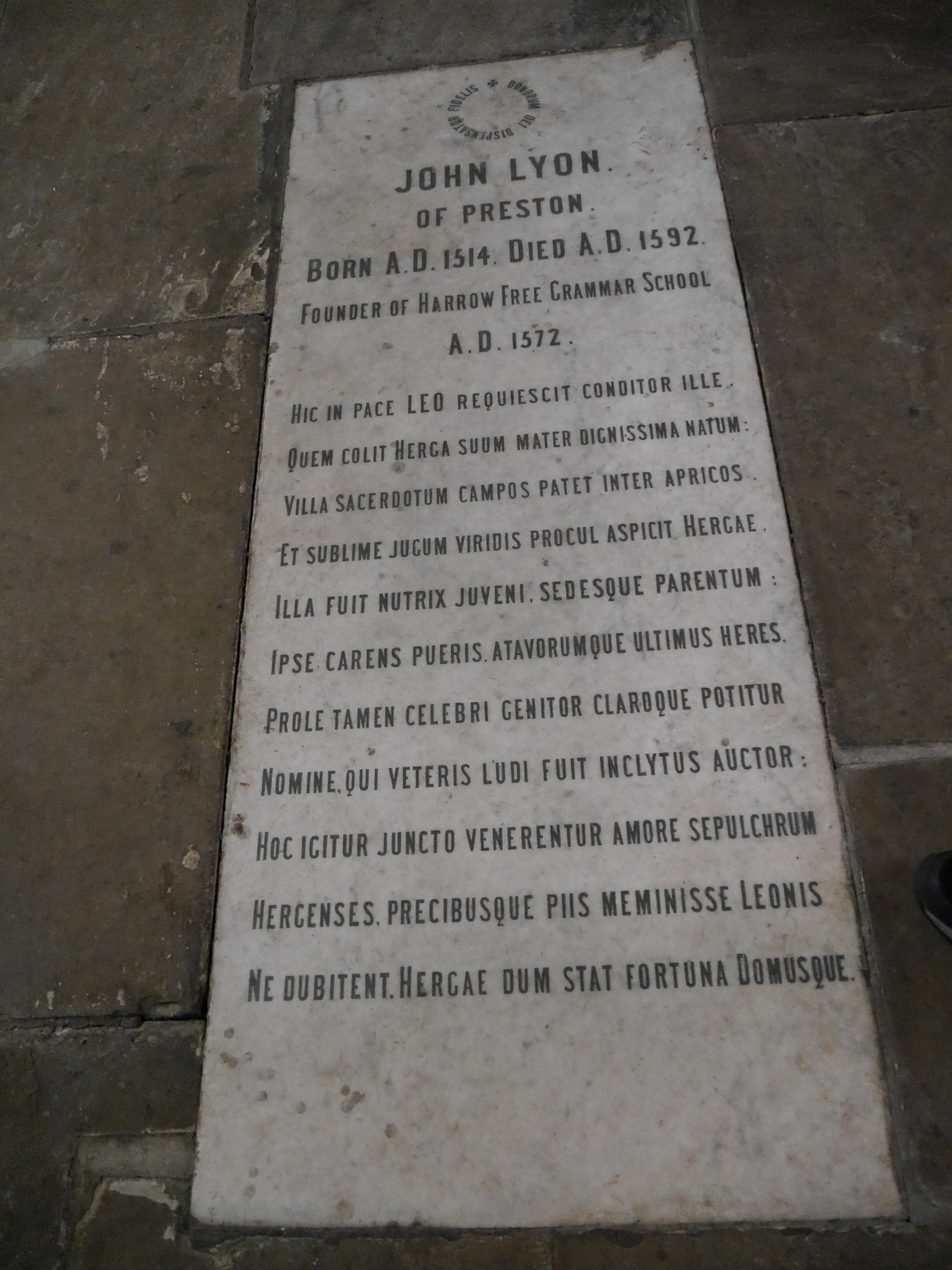 St Mary's, Harrow on the Hill, 2015